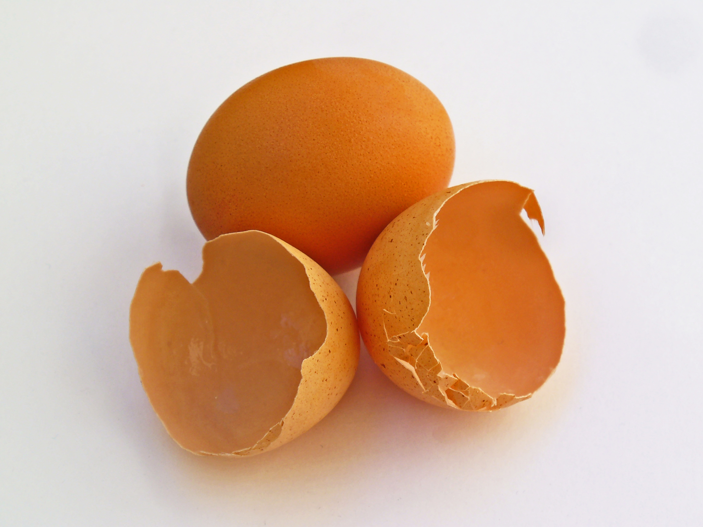 Brown egg and eggshell